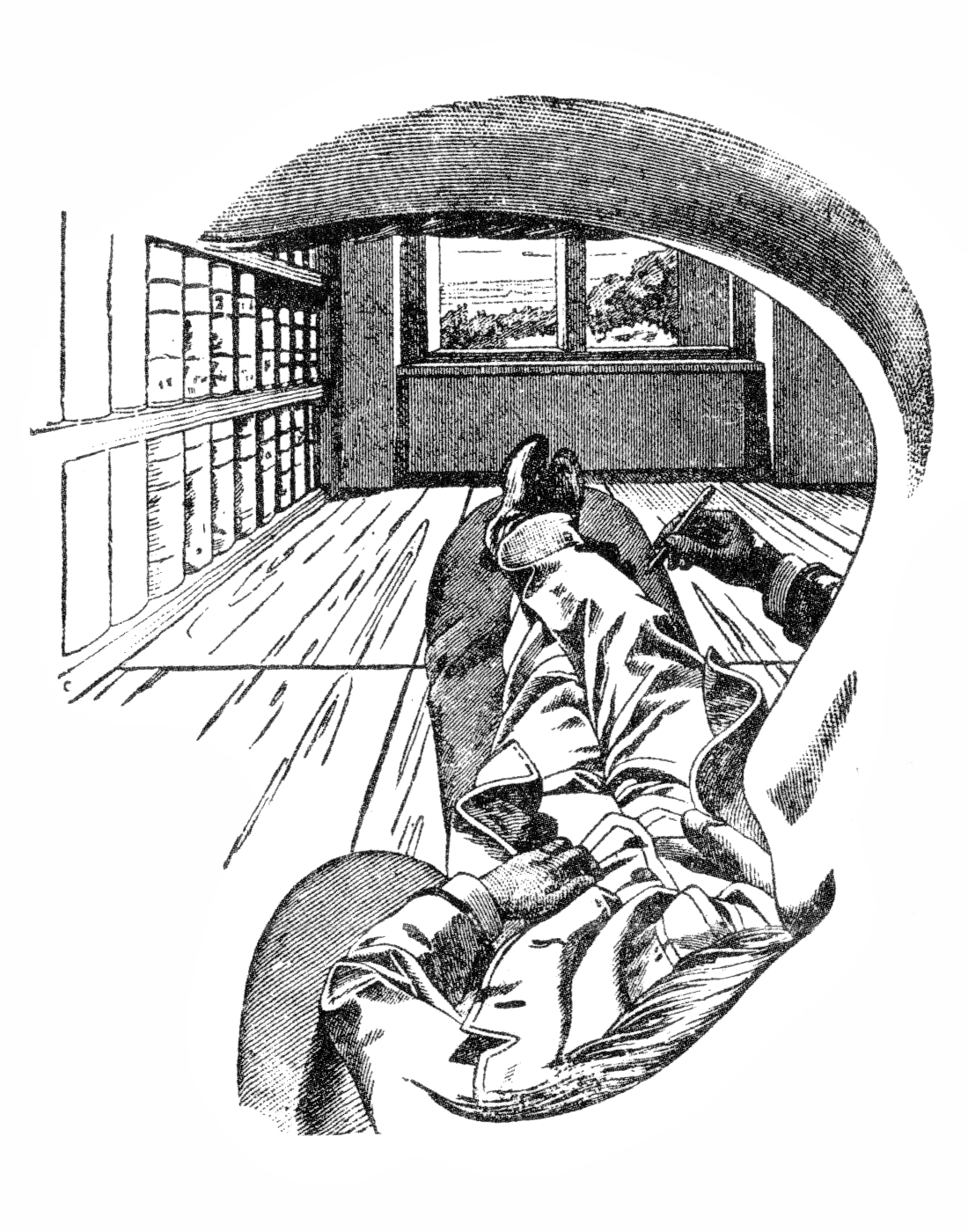 Ernst Mach's drawing. -- Inner perspective